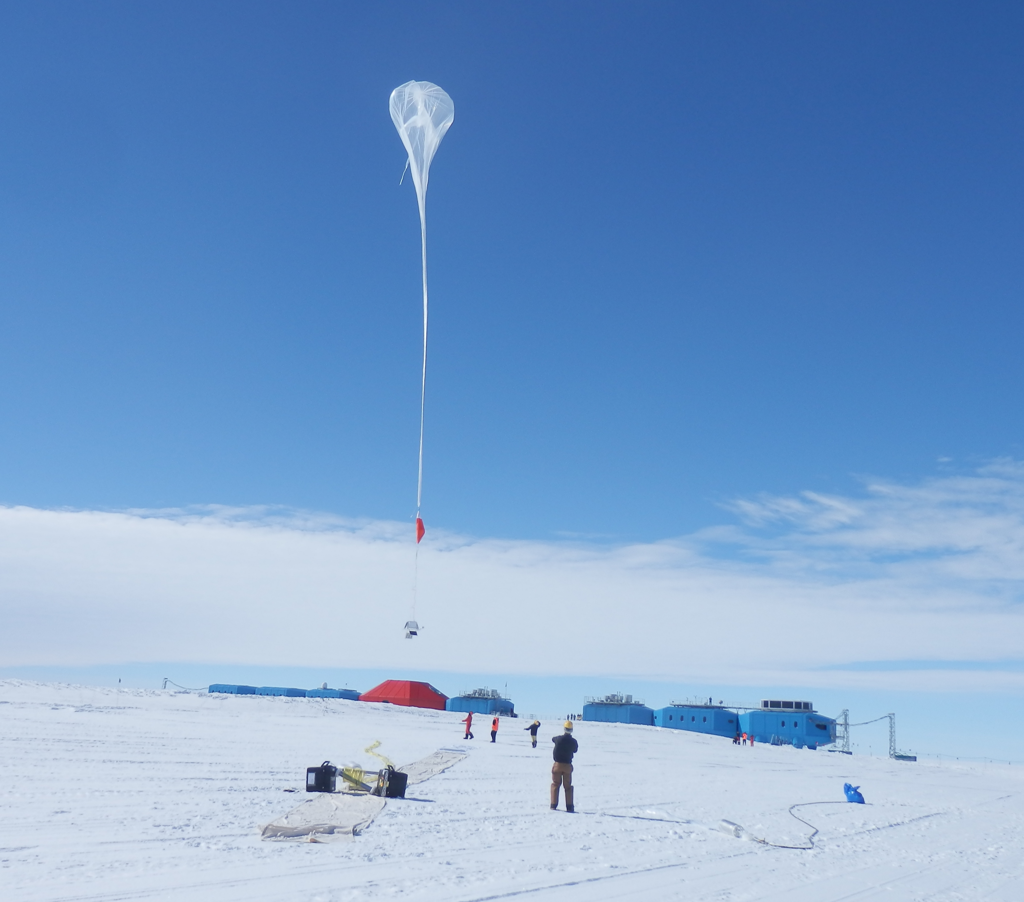 Liftoff! A balloon begins to rise over the brand new Halley VI Research Station, which had its grand opening in February 2013. Credit: NASA --- In Antarctica in January, 2013 – the summer at the South Pole – scientists launched 20 balloons up into the air to study an enduring mystery of space weather: when the giant radiation belts surrounding Earth lose material, where do the extra particles actually go? The mission is called BARREL (Balloon Array for Radiation belt Relativistic Electron Losses) and it is led by physicist Robyn Millan of Dartmouth College in Hanover, NH. Millan provided photographs from the team’s time in Antarctica. The team launched a balloon every day or two into the circumpolar winds that circulate around the pole. Each balloon floated for anywhere from 3 to 40 days, measuring X-rays produced by fast-moving electrons high up in the atmosphere. BARREL works hand in hand with another NASA mission called the Van Allen Probes, which travels through the Van Allen radiation belts surrounding Earth. The belts wax and wane over time in response to incoming energy and material from the sun, sometimes intensifying the radiation through which satellites must travel. Scientists wish to understand this process better, and even provide forecasts of this space weather, in order to protect our spacecraft. As the Van Allen Probes were observing what was happening in the belts, BARREL tracked electrons that precipitated out of the belts and hurtled down Earth’s magnetic field lines toward the poles. By comparing data, scientists will be able to track how what’s happening in the belts correlates to the loss of particles – information that can help us understand this mysterious, dynamic region that can impact spacecraft. Having launched balloons in early 2013, the team is back at home building the next set of payloads. They will launch 20 more balloons in 2014.